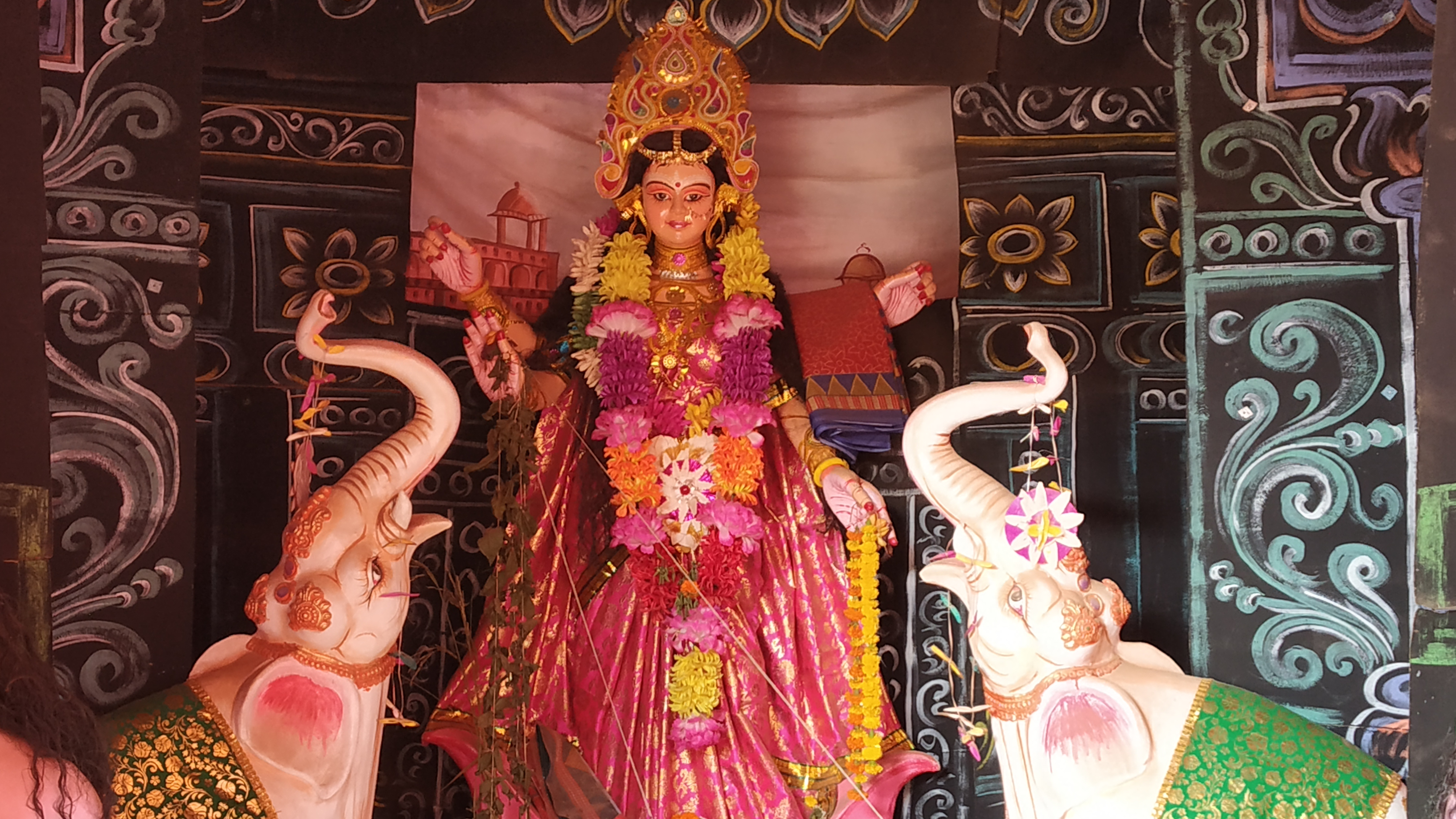 Laxmi Puja This photo has been taken in the country: India